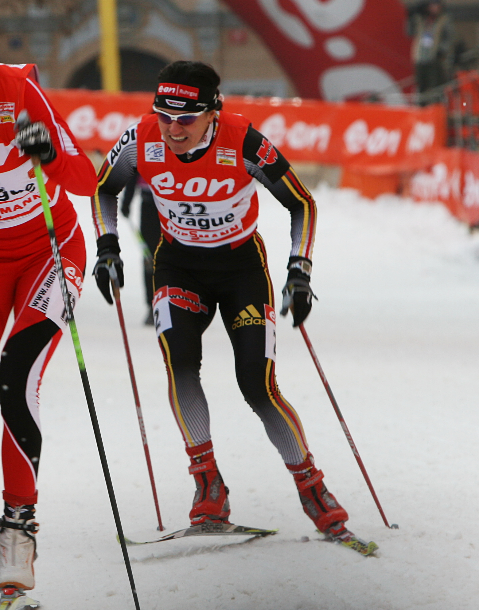 Manuela Henkel in the quaterfinals of Tour de Ski in Prague